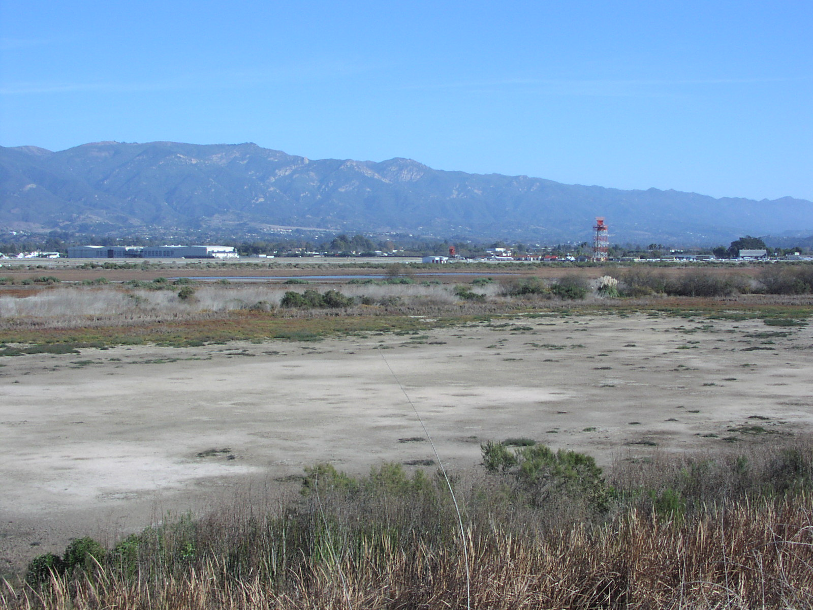 Goleta Slough, from heights adjacent to UCSB, looking E-NE, taken by Antandrus on 12/30/2006